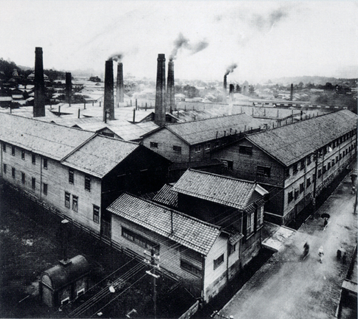 The Nikko porcelain factory, which was founded in 1908 in Kanazawa.